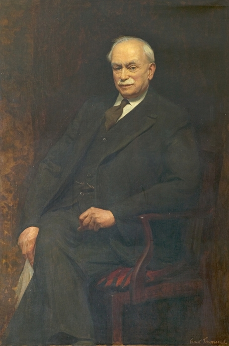 William Robert Raynes (1871–1966) by Ernest Townsend died 1944 Derby Museums and Art Gallery; Supplied by The Public Catalogue Foundation